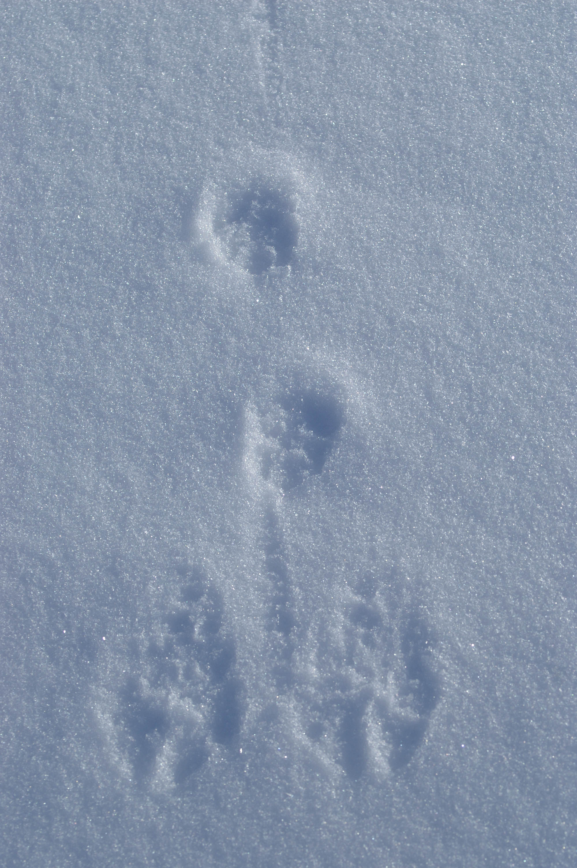 Lepus europaeus tracks on snow.